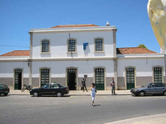 Railway Station Tavira